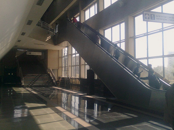 This is an escalator of Delhi Metro's Dwarka Sector - 14 metro station